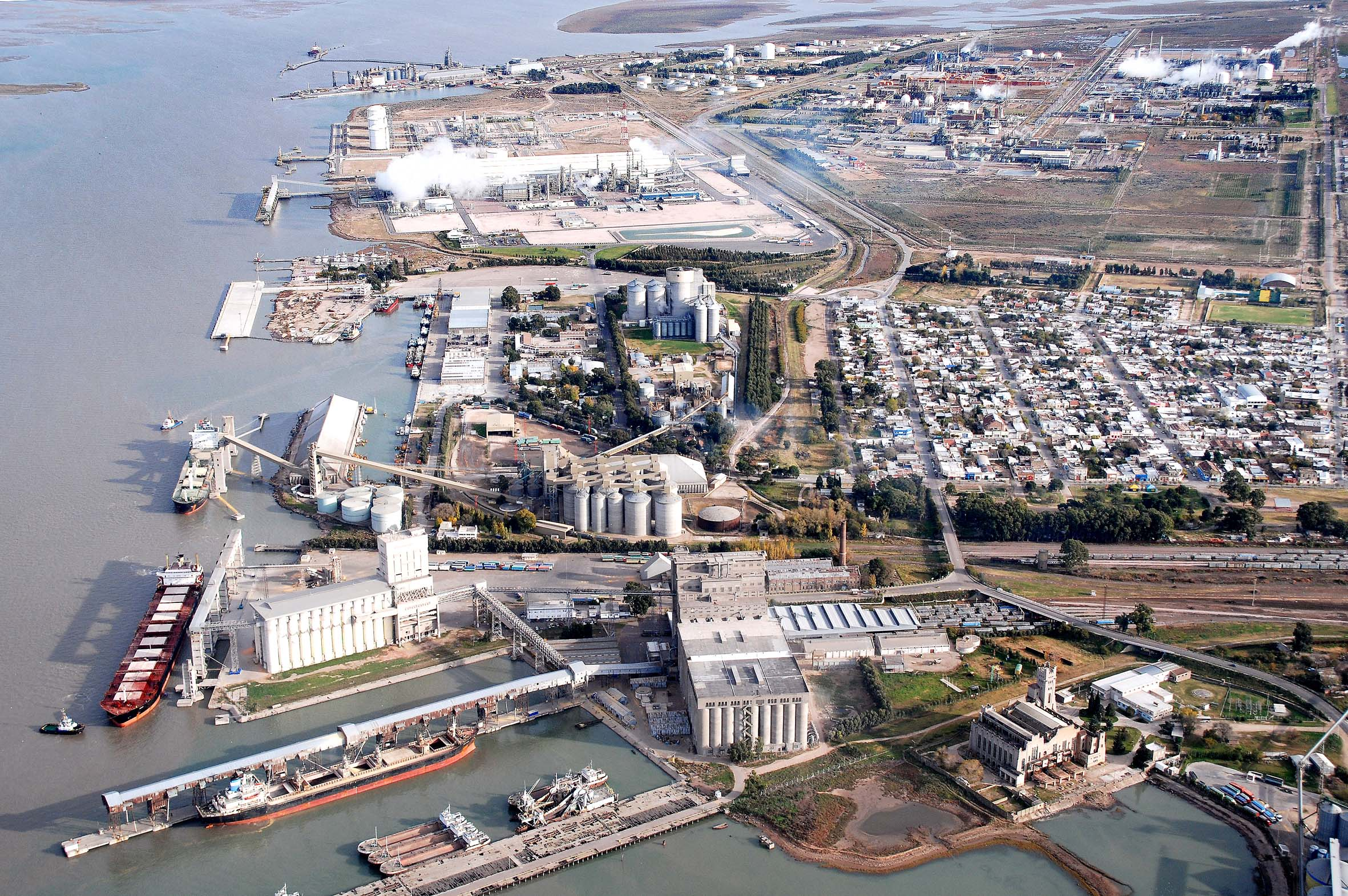 View of Ingeniero White, a suburb of Bahía Blanca, Argentina, and an important maritime port. Taken by Mr. Andy Winbow, Assistant Secretary-General & Director Maritime Safety Division, IMO - on mission in Argentina.